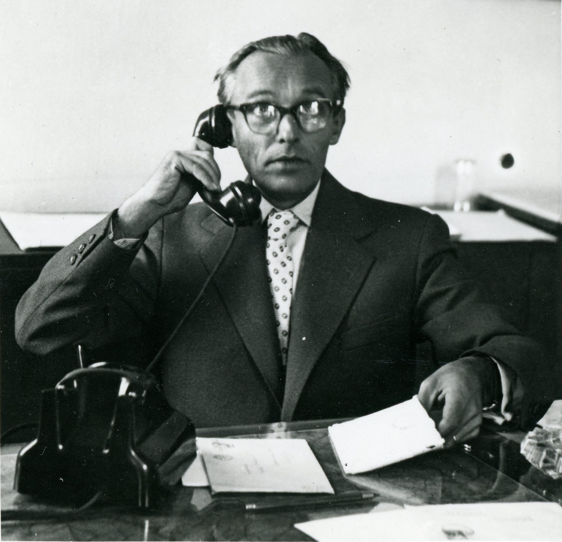 Photograph of Rajko Nikolić (1911-1990), Serbian ethnologist and director of the Vojvođanski muzej. Srpski (latinica): Fotografija Rajka Nikolića (1911-1990), etnologa i direktora Vojvođanskog muzeja.